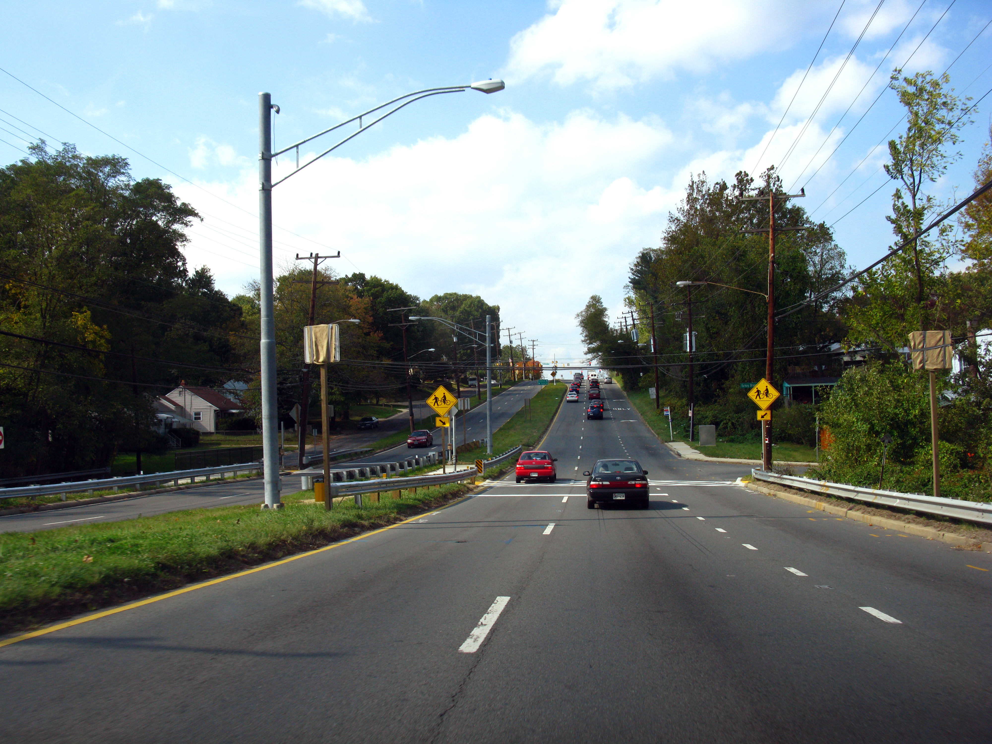 2009 10 13 - 0097 - Aspen Hill - MD586 at Turkey Branch Pkwy